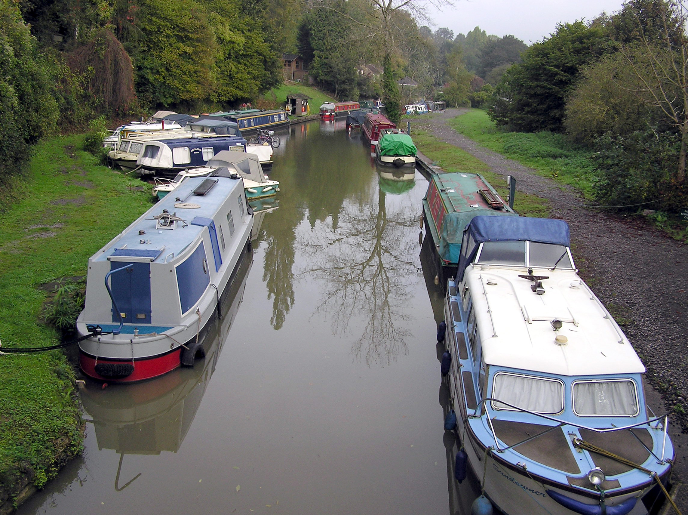 Moorings on the Somerset Coal Canal, Limpley Stoke, Bath, England. Only about a 200 metre stretch of this canal contains water and is used for the moorings seen here, a café, boat and cycle hire, and pleasure trips. Photographed by Adrian Pingstone in October 2006 and placed in the public domain.